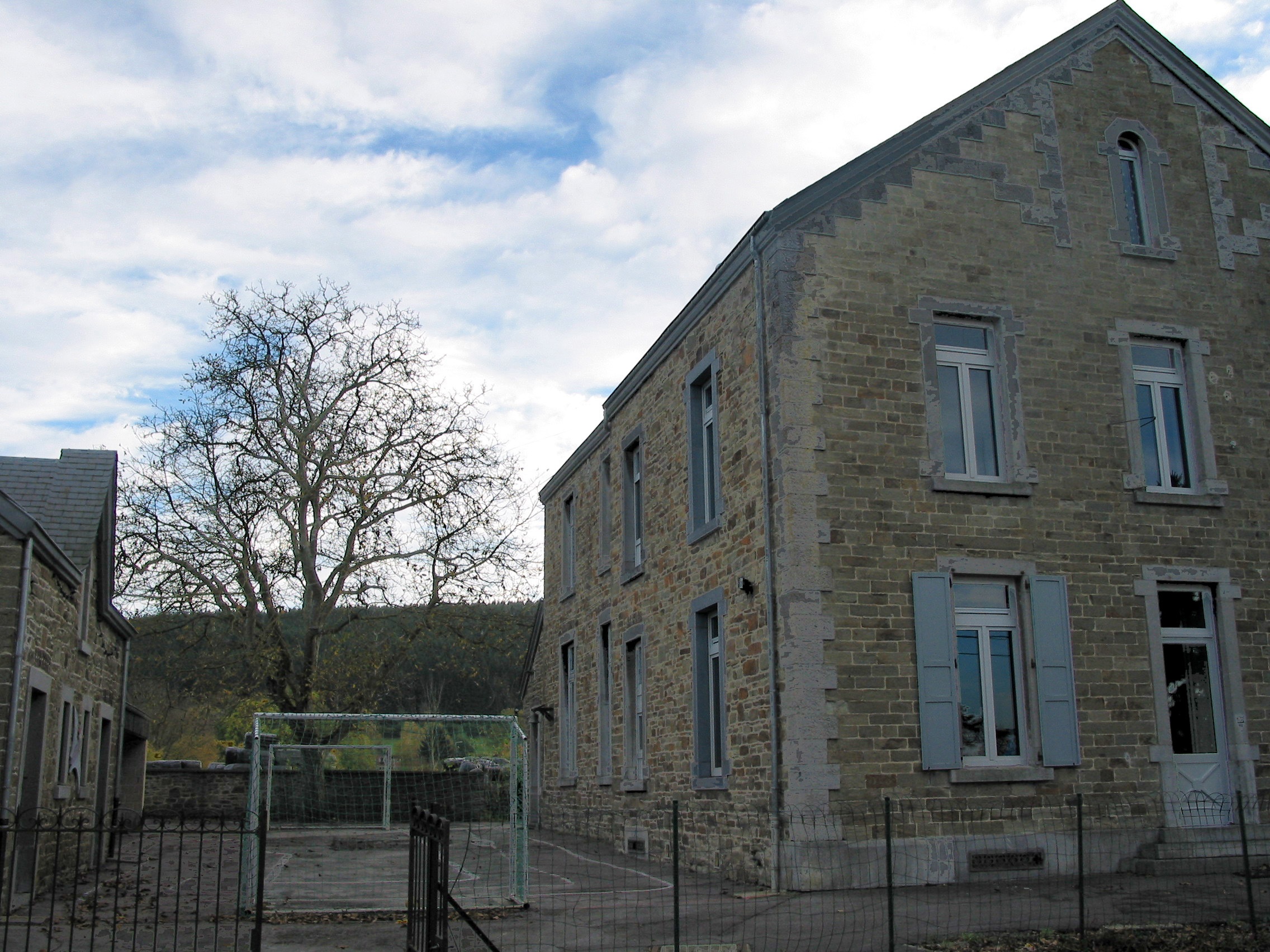 Lesterny (Belgium), school located rue du Point d'Arrêt.